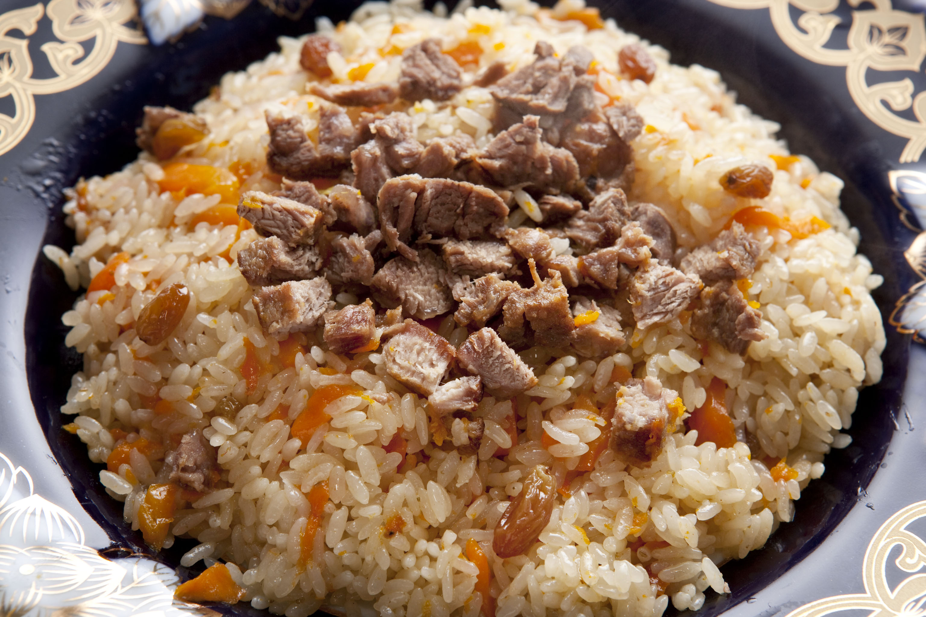 Uyghur Polu, kind of rice pilaf, a traditional dish and staple food in the cuisines of many Asian countries